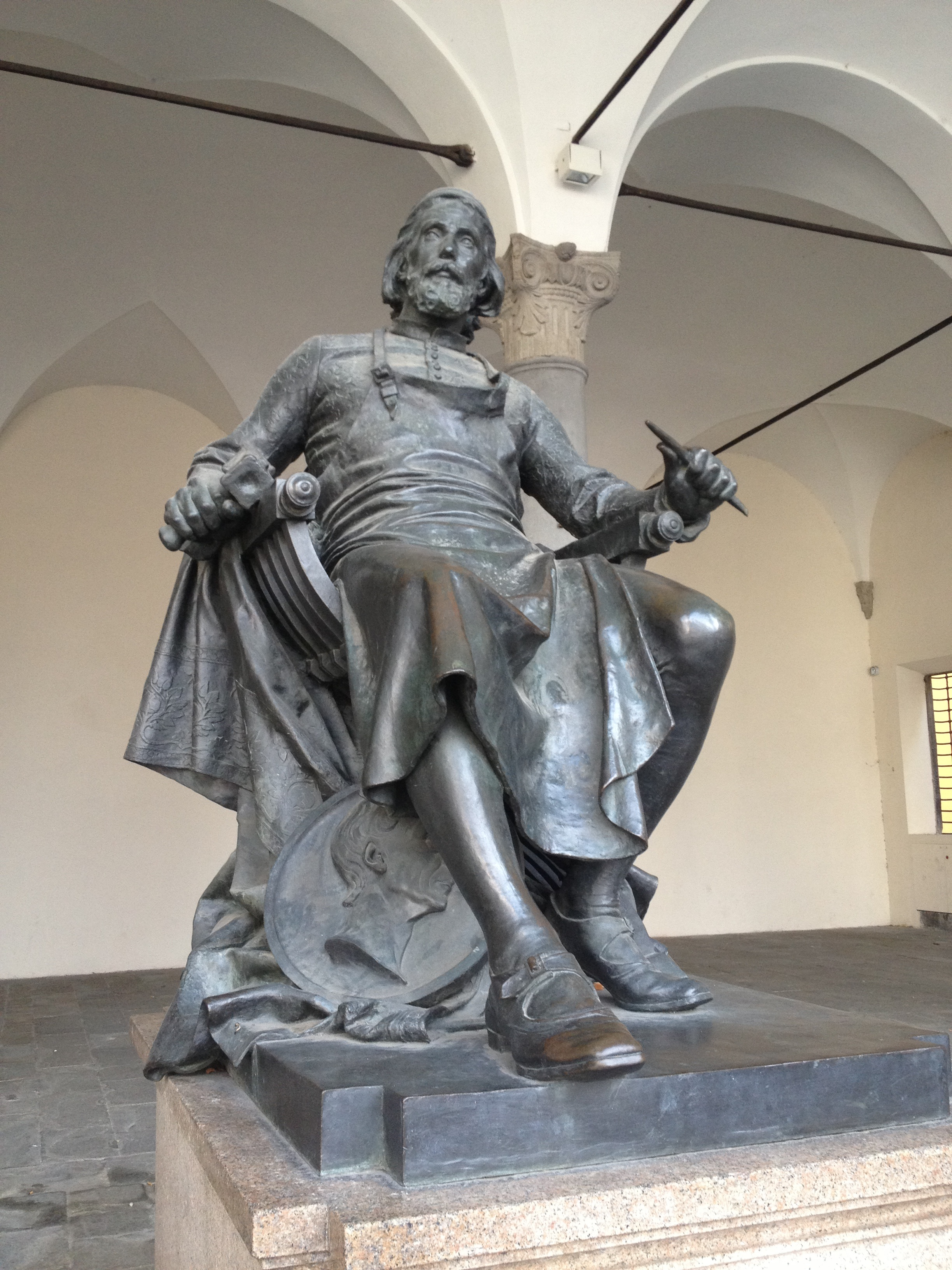 A photograph of the statue of sculptor Matteo Civitali in the portico of the Palazzo Pretoriale in Lucca.